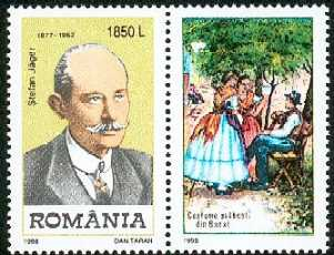 Stamp 1998 Stefan Jaeger